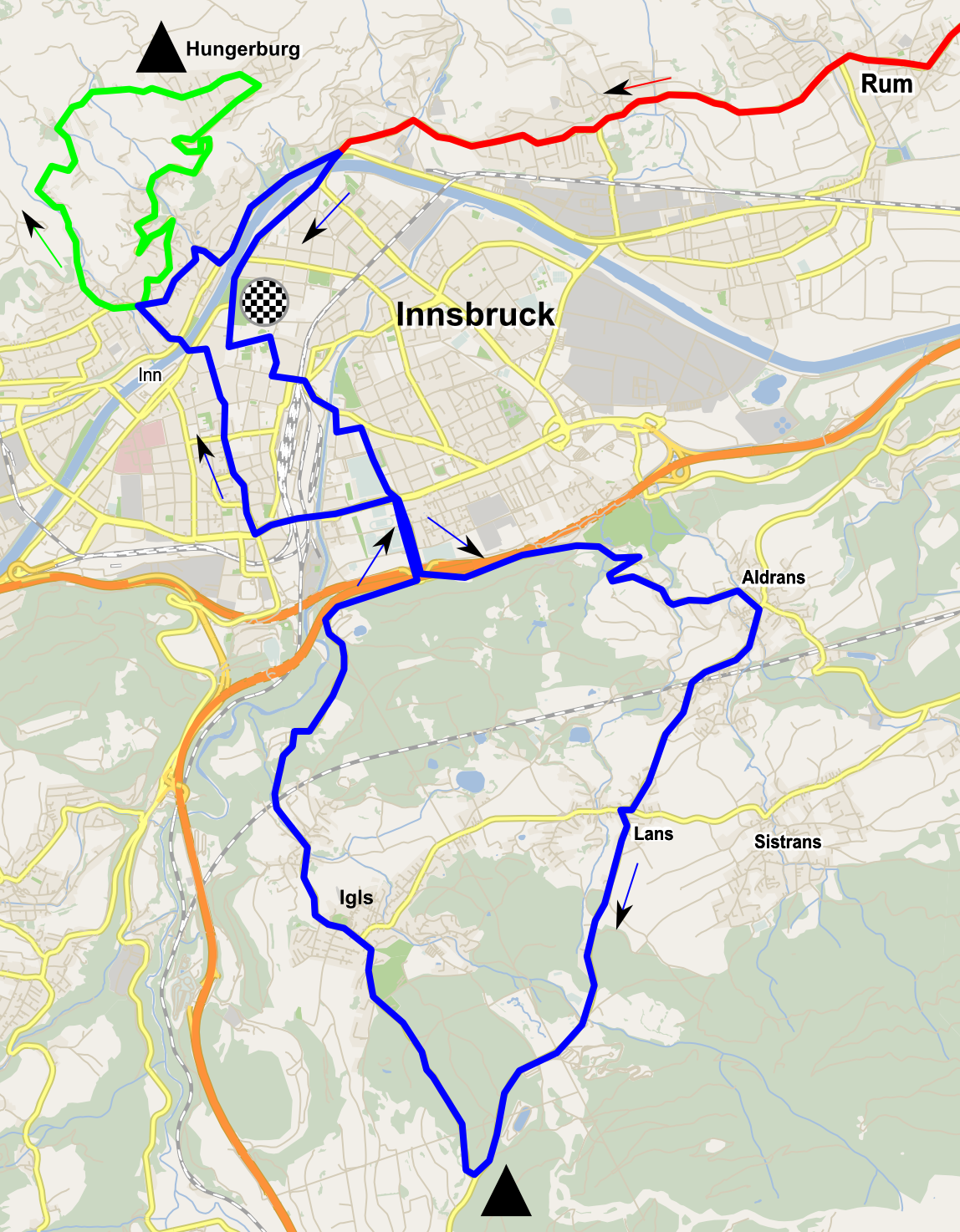 Map of world championship road for men 2018 in Innsbrück.